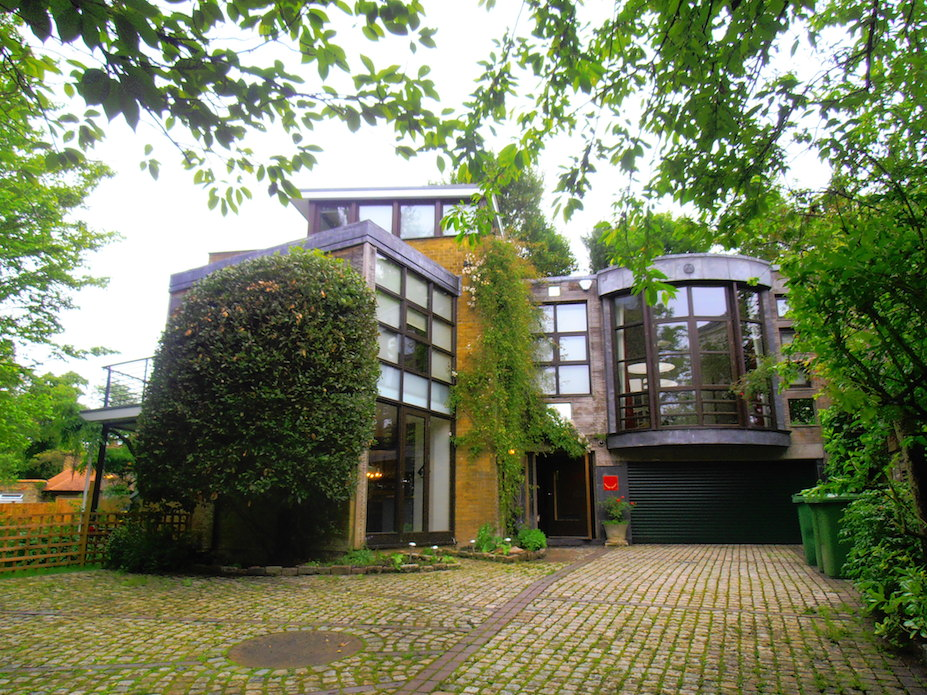 Sequential images for Douglas Jarvie Clelland Wikipedia article